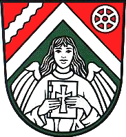 Coat of arms of Arenshausen